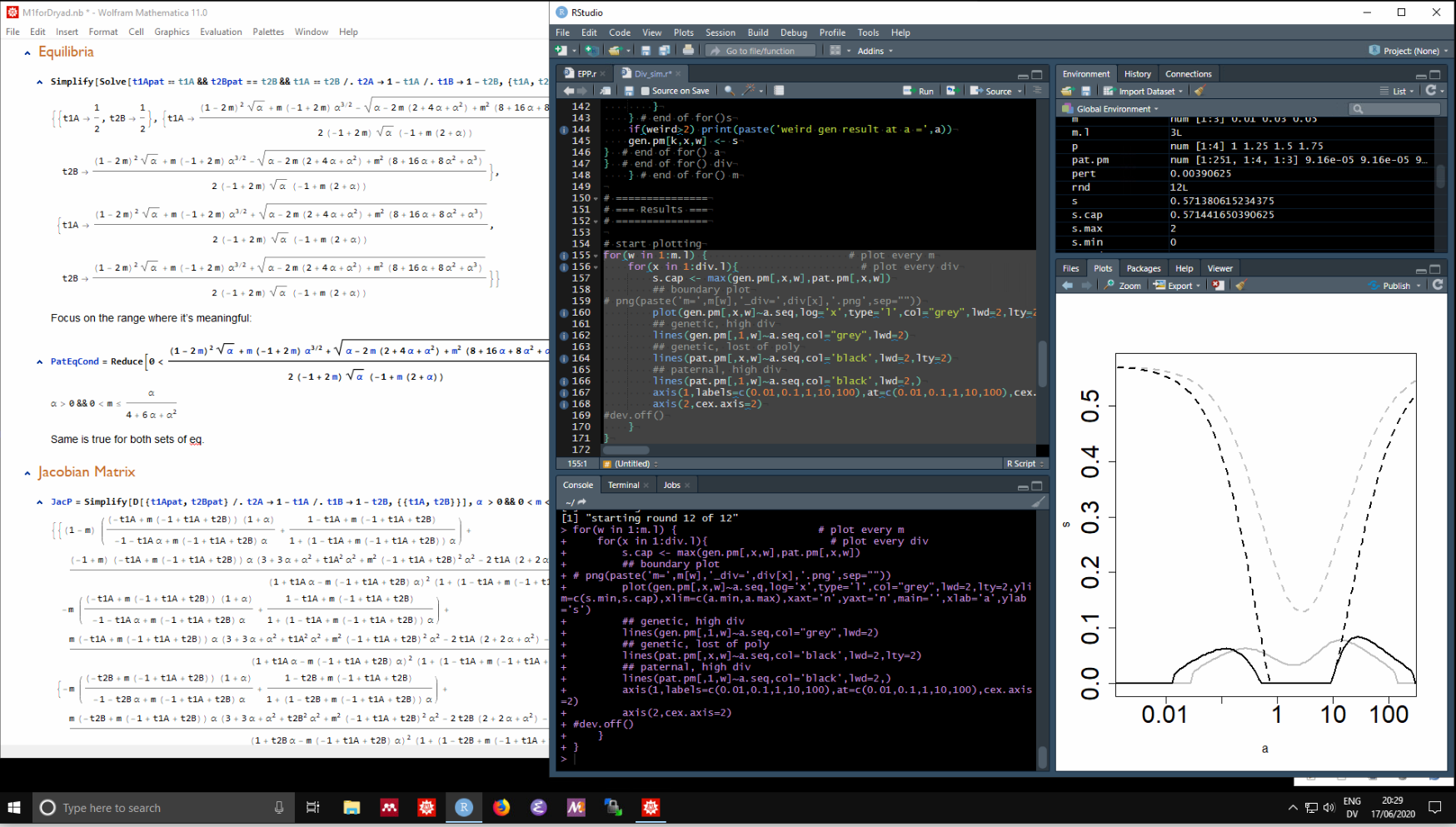 An evolutionary biology model shown on a computer with Windows 10. On the left, the model's equilibrium is solved in Wolfram Mathematica. On the right, an unsolvable parameter value is approximated using R and plotted.